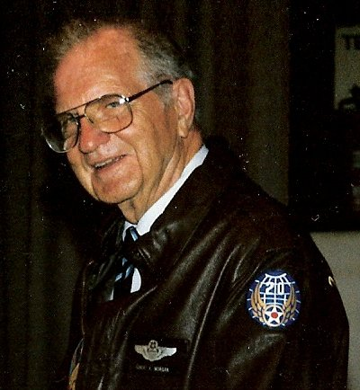 Photograph taken by me in the 1990s at Hitchin Town Hall in Hertfordshire in the UK when Morgan was visiting.